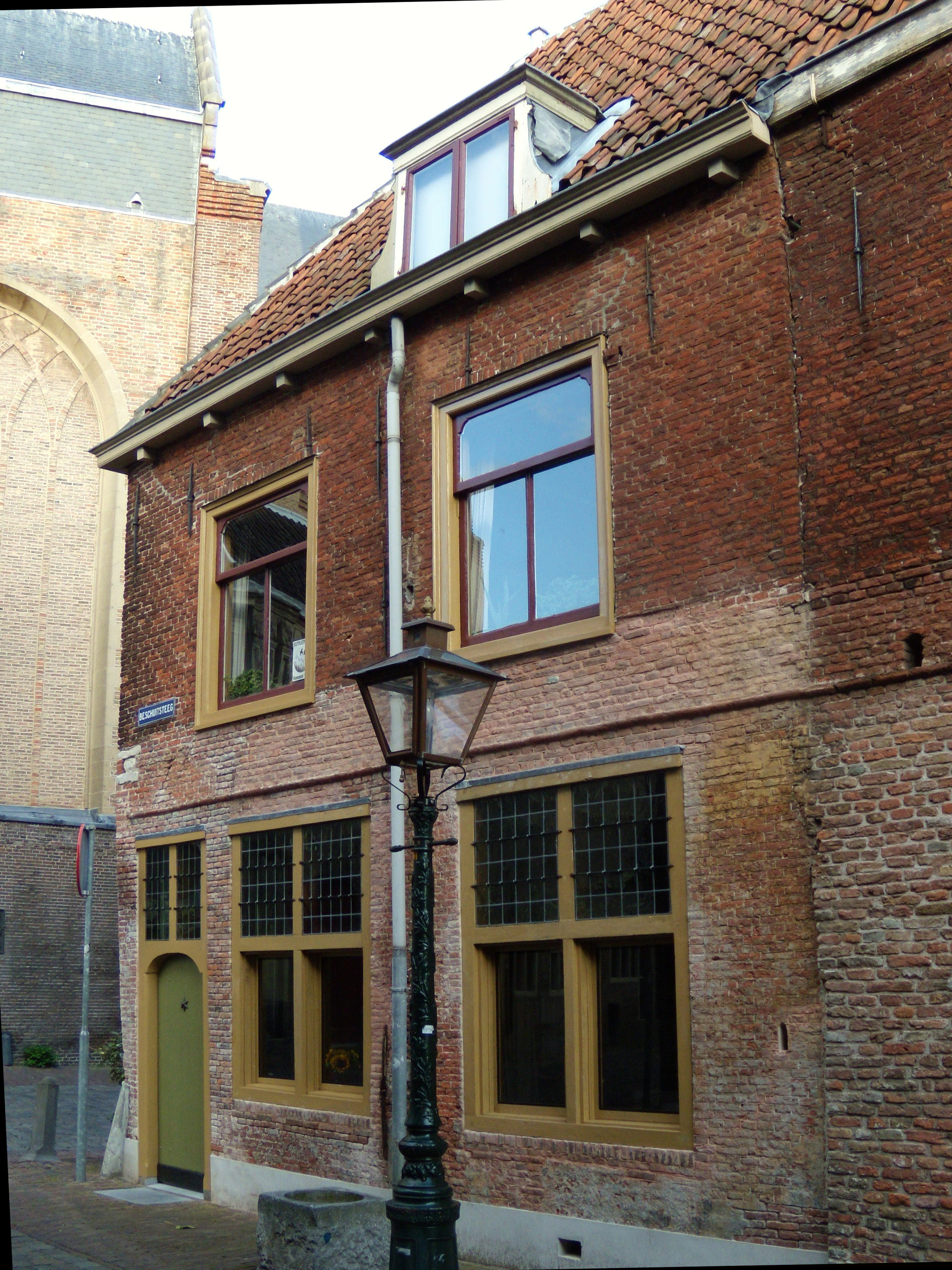 Leiden_American_Pilgrim_Museum